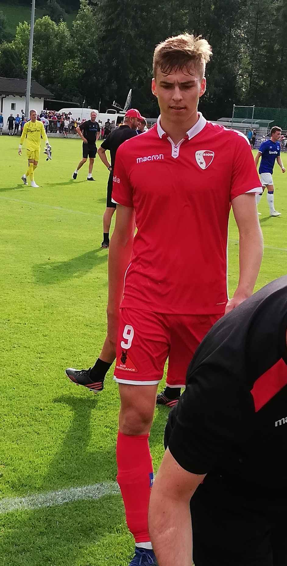 Roberts Uldrikis with the FC Sion kit after a friendly game against Everton FC in Bagnes, Switzerland, in July 2019